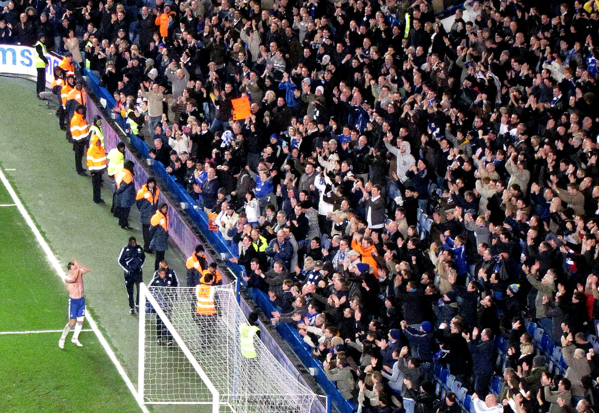 Chelsea v Arsenal, Feb 7th 2010.In the wake of the media bitzkrieg over Terry's alleged affair with Vanessa Perroncel, fans at Stamford ridge show their support for their captain.